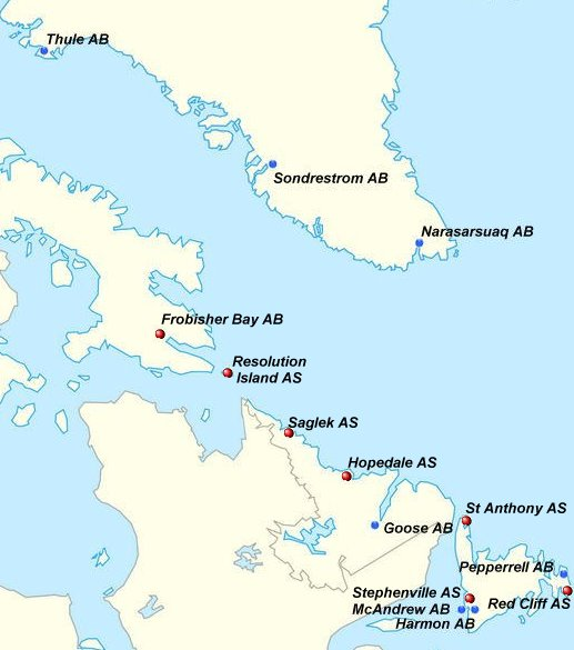 Map of USAF Northeast Air Command